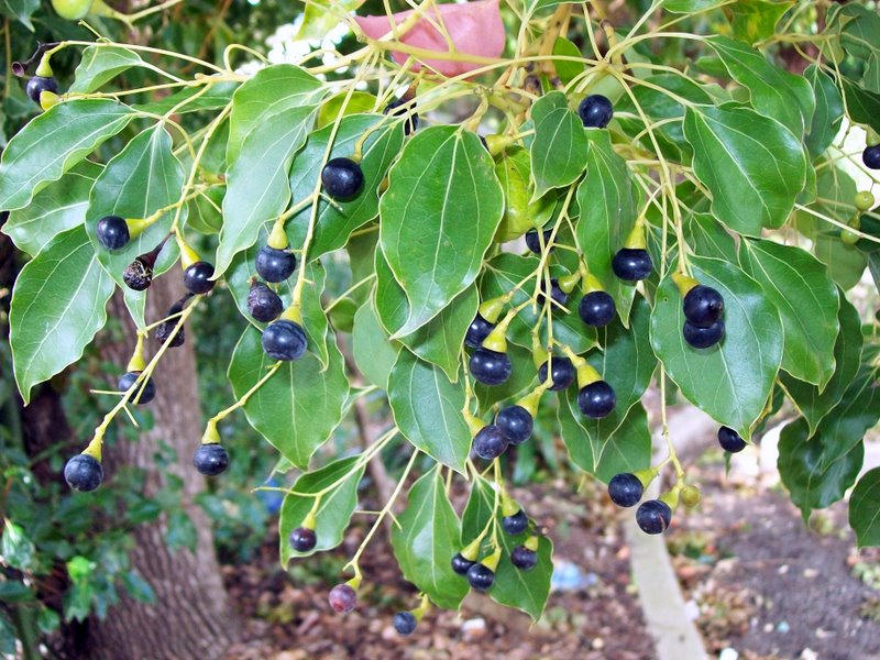 Cinnamomum camphora at Turramurra Railway Station, Australia